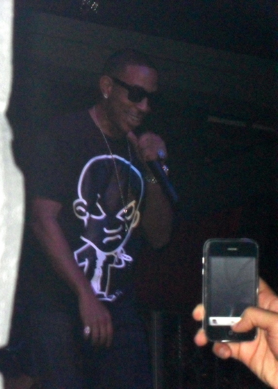 Ludacris performing live in a Miami Beach nightclub 12/2/2010.